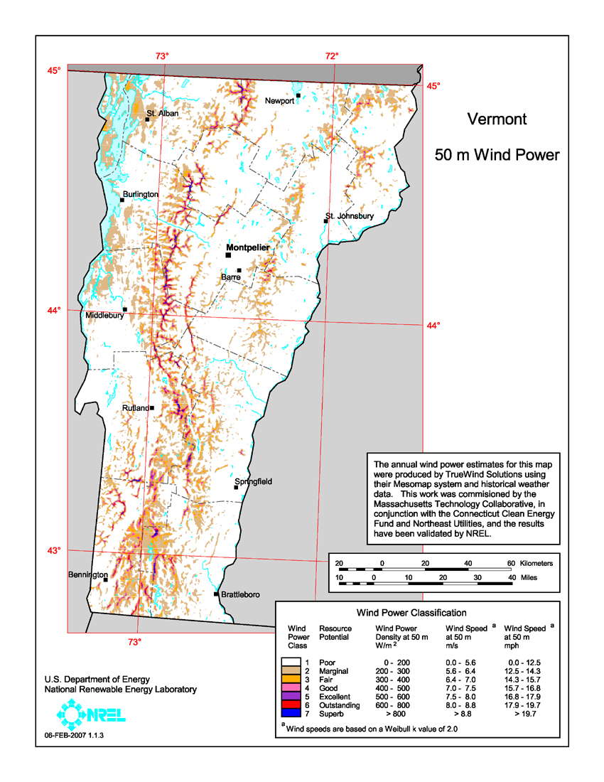 Average annual wind power distribution for Vermont, 50m height above ground, also showing location of existing electrical transmission lines